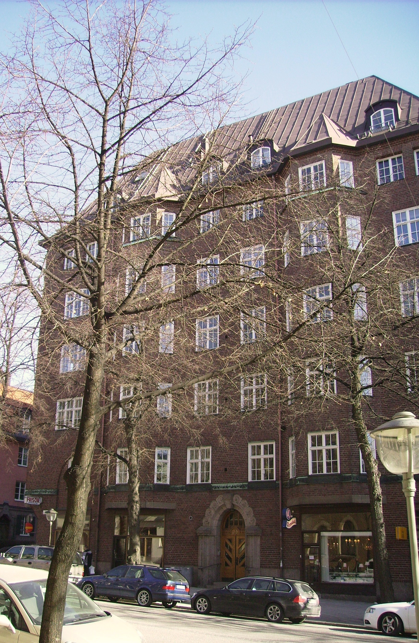 Building on Odengatan 19 in Stockholm.